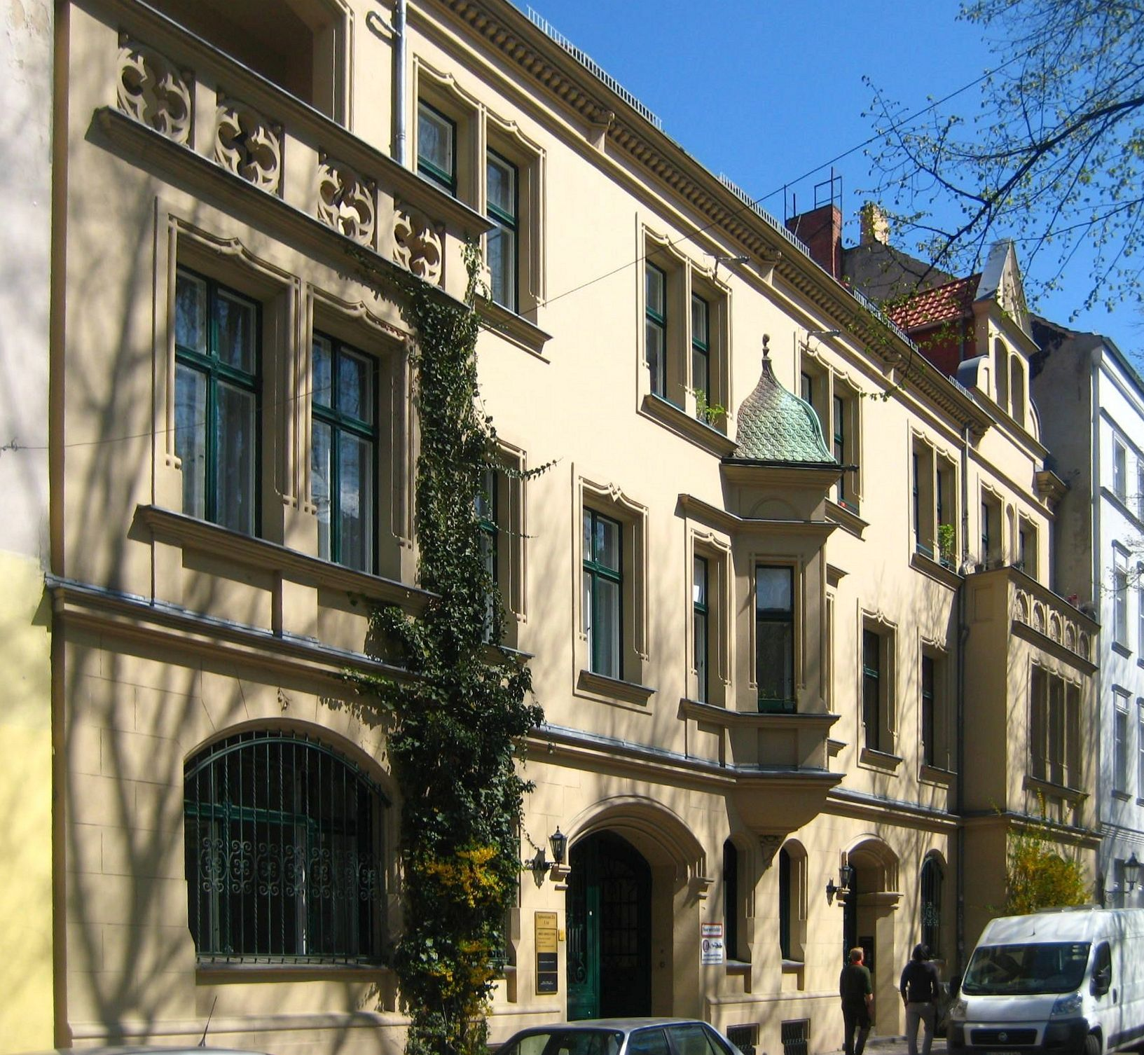 Residential building at Sophienstraße No. 22, 22A in Berlin-Mitte. It was built in 1899 with a factory in the rear part of the lot. The complex has been designated as a historic landmark.